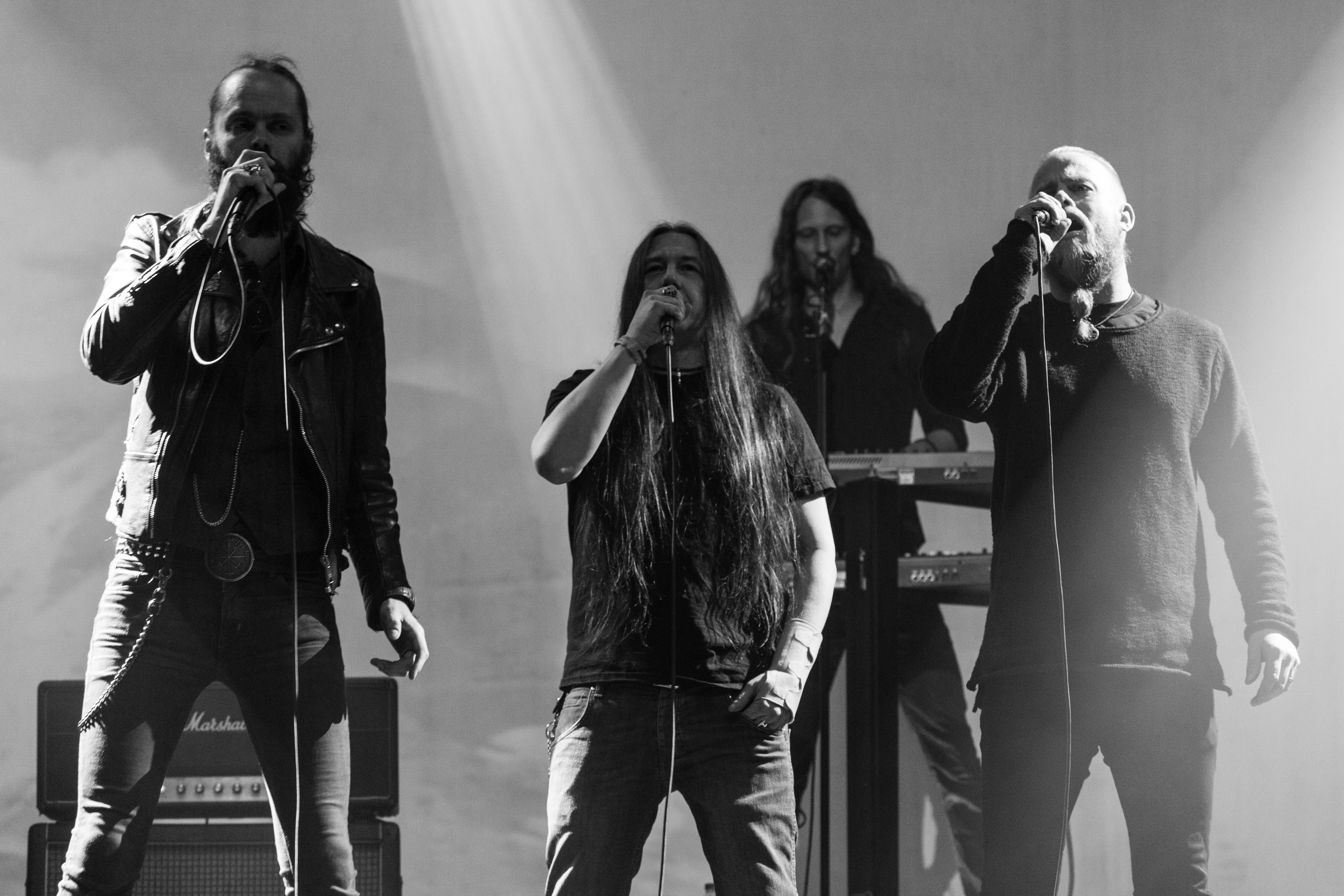 Enslaved performing at Roadburn Festival, april 2015